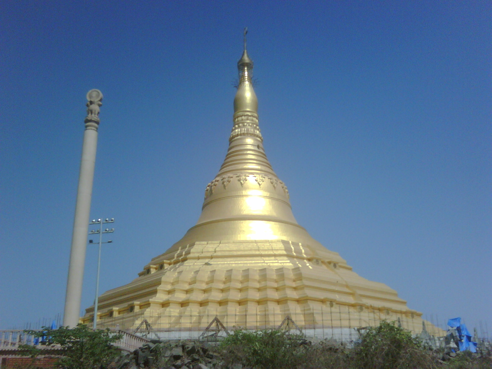 The Global Pagoda at Gorai beech Mumbai.It is the vipasana centre founded by Guruji S.N.Goenka. It is the biggest pillarless dome on earth. It is 325 feet high equivalent to a 30 story building and 280 feet in diameter hall,without pillars,where 8000 thousand people can sit togather and meditate.It is expected to exist as beacon of peace and harmony for the next 1000 years.